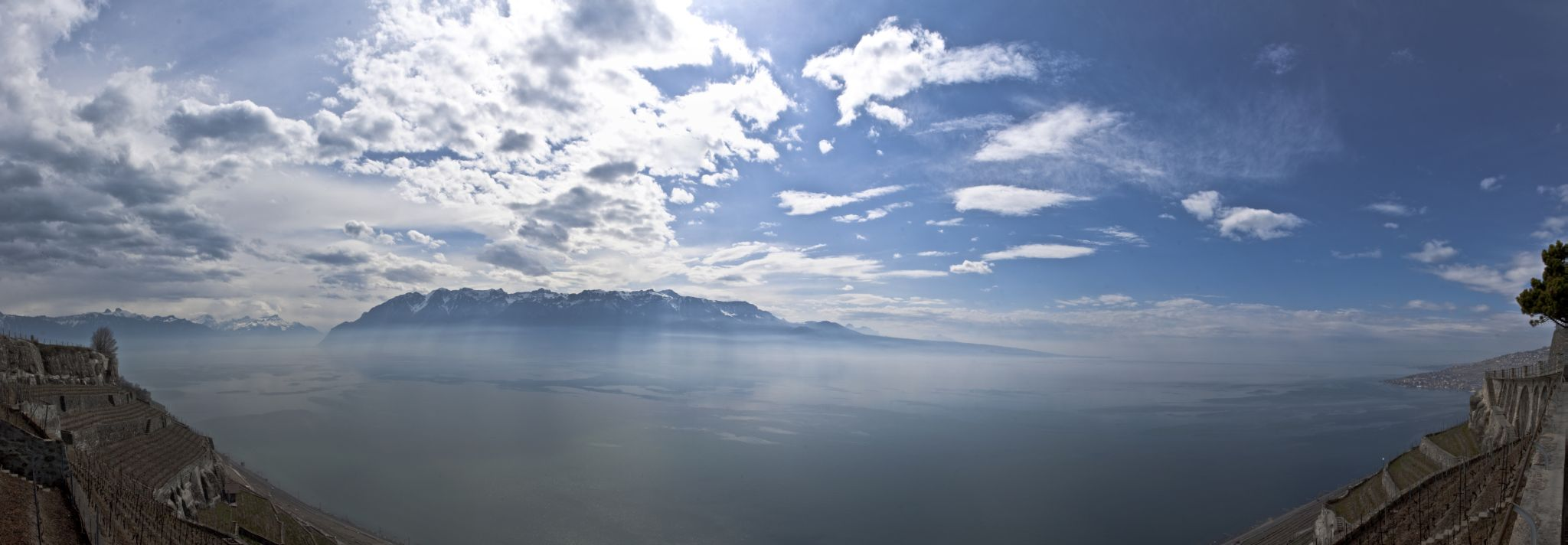 Lake Geneva (from Chexbres)